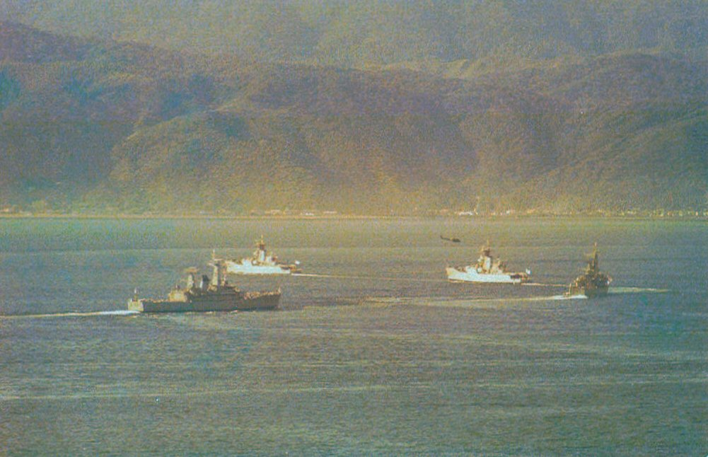 4 RNZN frigates, HMNZS Canterbury, Otago, Taranaki, & Waikato, on exercise in Wellington Harbour 1980.